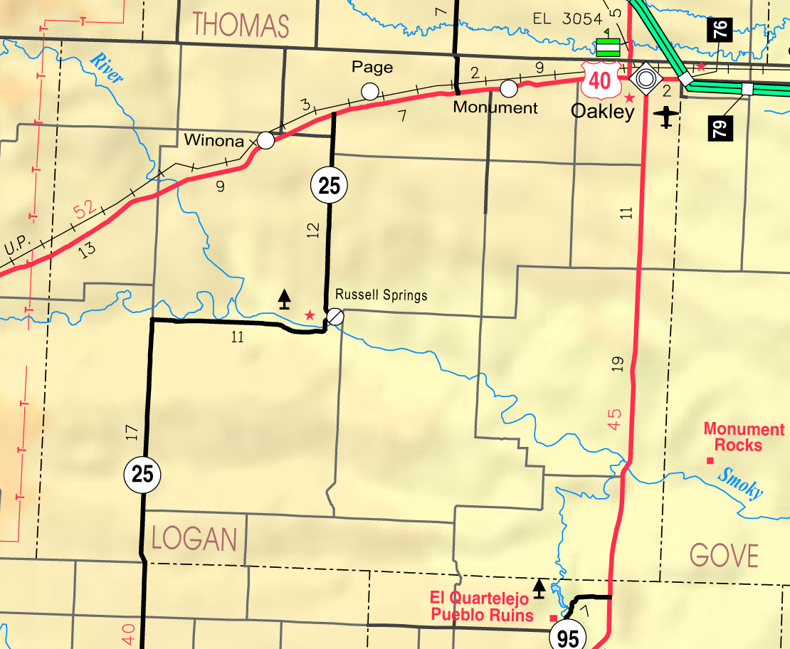 This map of Logan County, Kansas, USA, is copied at a resolution of 300 pixels/inch from the original PDF file.